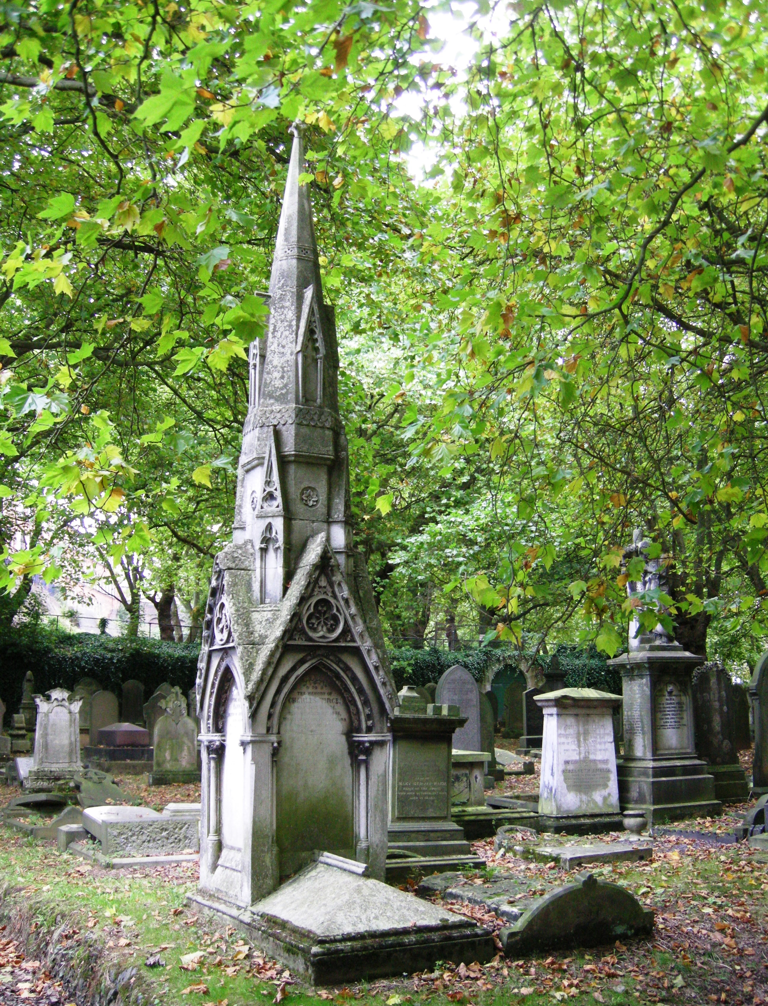 Monument to Charles Vince, Key Hill Cemetery, Hockley, Birmingham